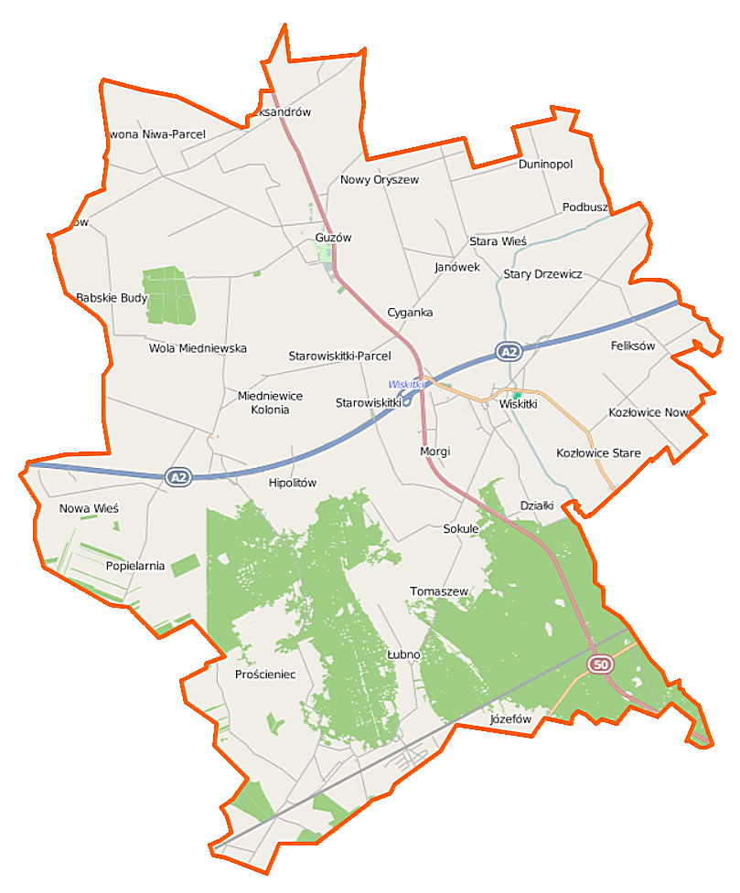 Map of Gmina Wiskitki, Poland This map of Wiskitki (gmina) was created from OpenStreetMap project data, collected by the community. This map may be incomplete, and may contain errors. Don't rely solely on it for navigation. Border coordinates52.160920.2375←↕→20.460051.9957